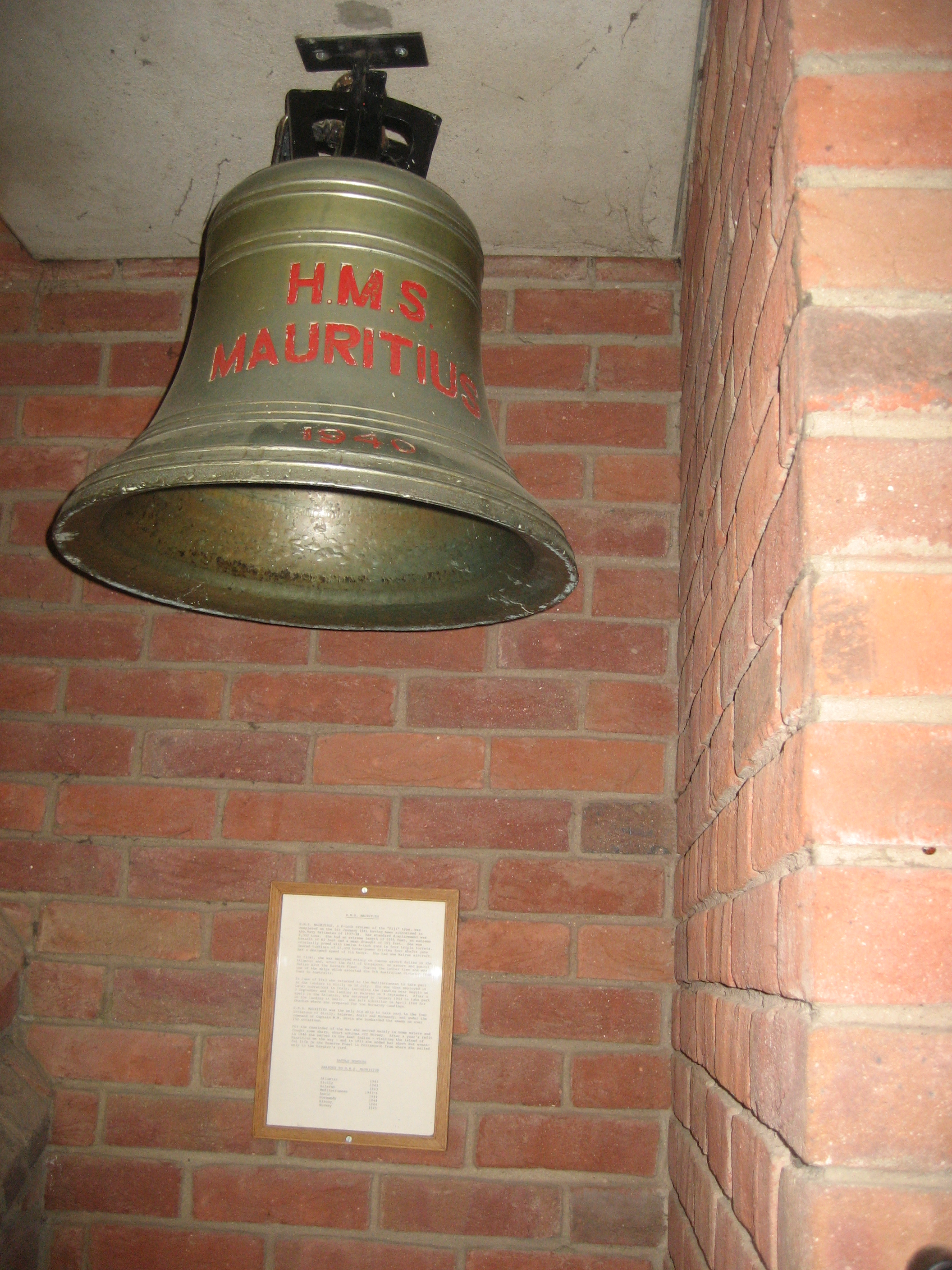 Ship bell HMS Mauritius, in Robinson College, Cambridge, England (UK)